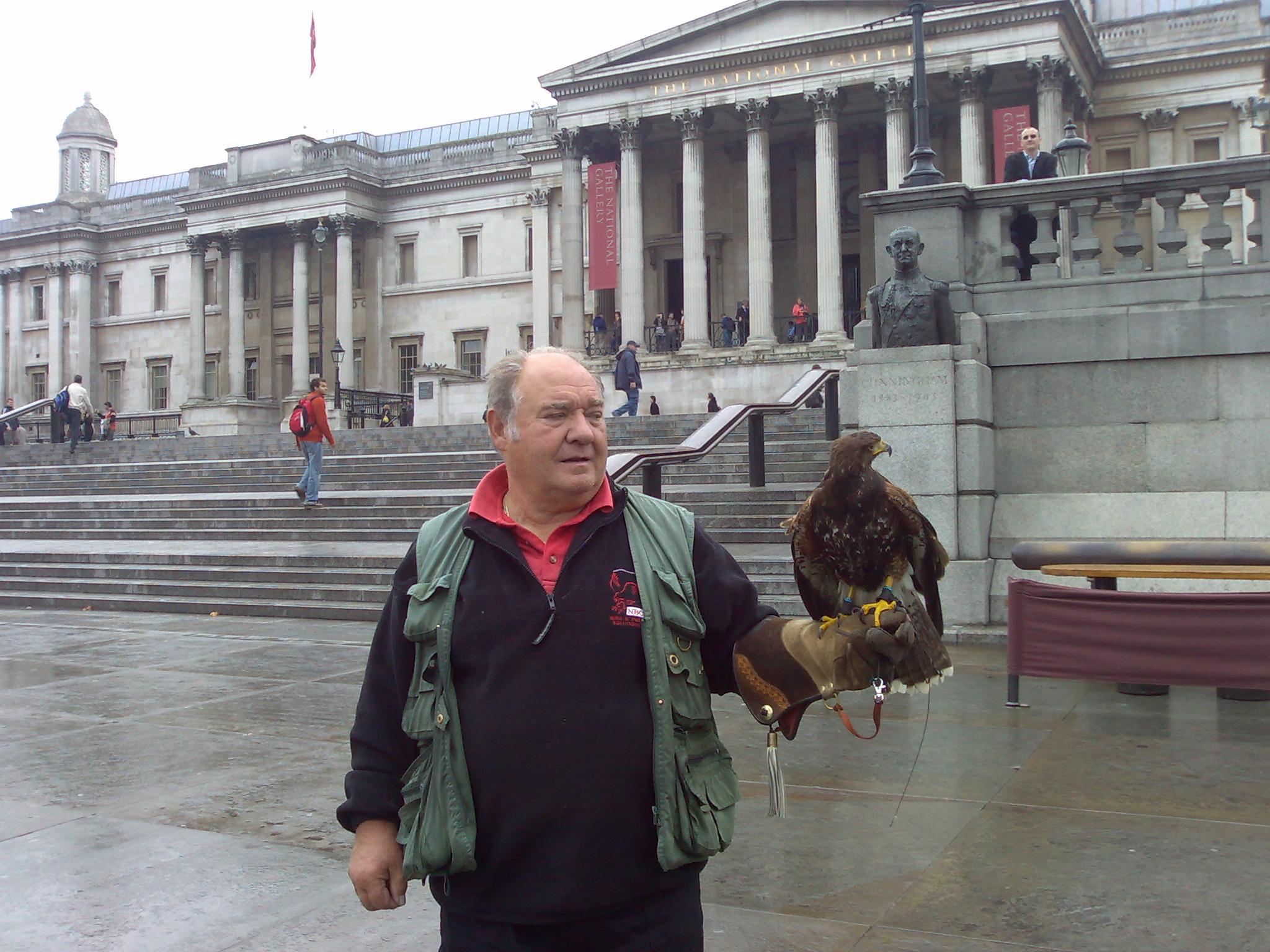 When the pigeons were still quite the nuisance at Trafalgar Square, this gentleman and his trained hawk was used to keep the pigeons moving.